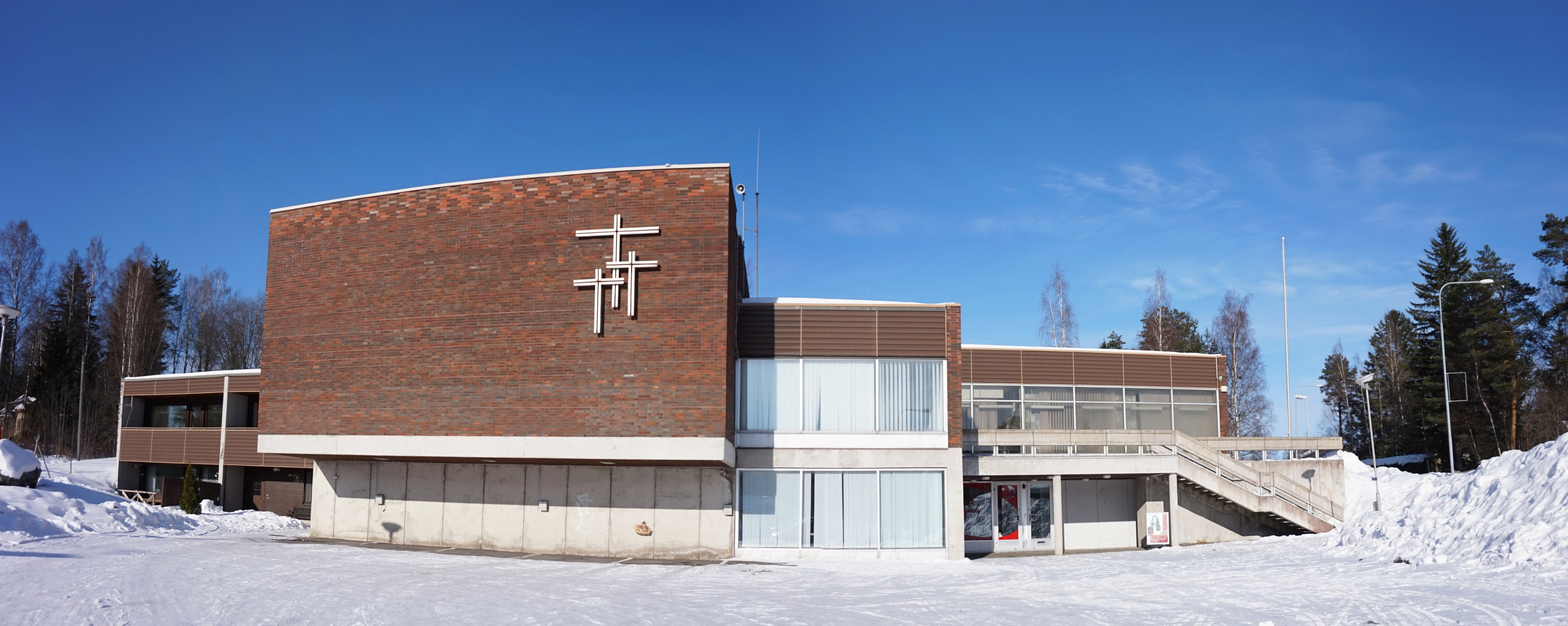 Vihtavuori chapel, Laukaa.